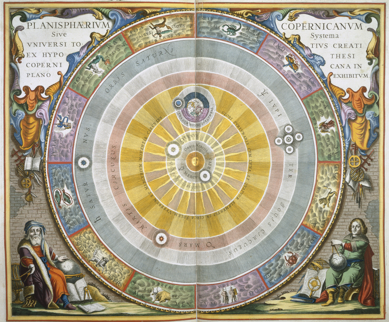 Planetary chart Copernicus System.